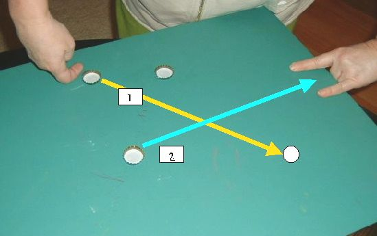 made by myself on december 4. , 2005, picture shows a move of a simple physical skill-game called in german: Englisch Fußball. --Peng 19:43, 4 December 2005 (UTC)